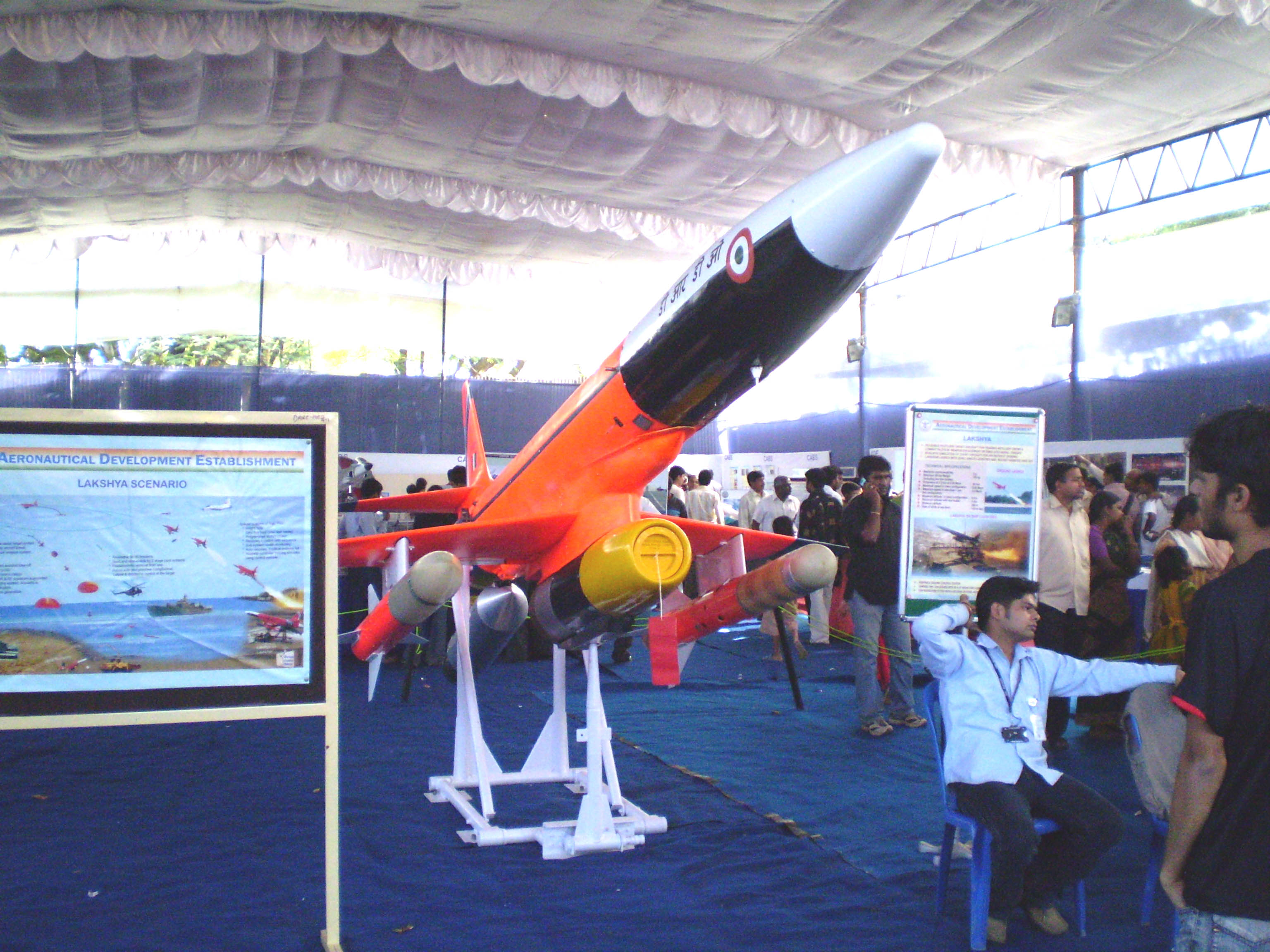 Lakshya PTA.